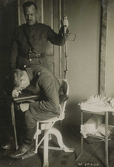 3rd Aviation Instruction Center. Issoudun, France. Medical research falling test. “William Holland Wilmer, Barany Chair Test. Robert Barany won 1914 Nobel prize for caloric nystagmus work. Pilot candidate (in chair) is recovering from spin administered by William Hollard Wilmer, director of 3rd Aviation Instruction Center, Issoudun , and donor of Wilmer ophthalmoscope collection. – A. Noe, Assistant Director for Collections and Research, 4/15/1991.” [Now director of the “National Museum of Health & Medicine” ].